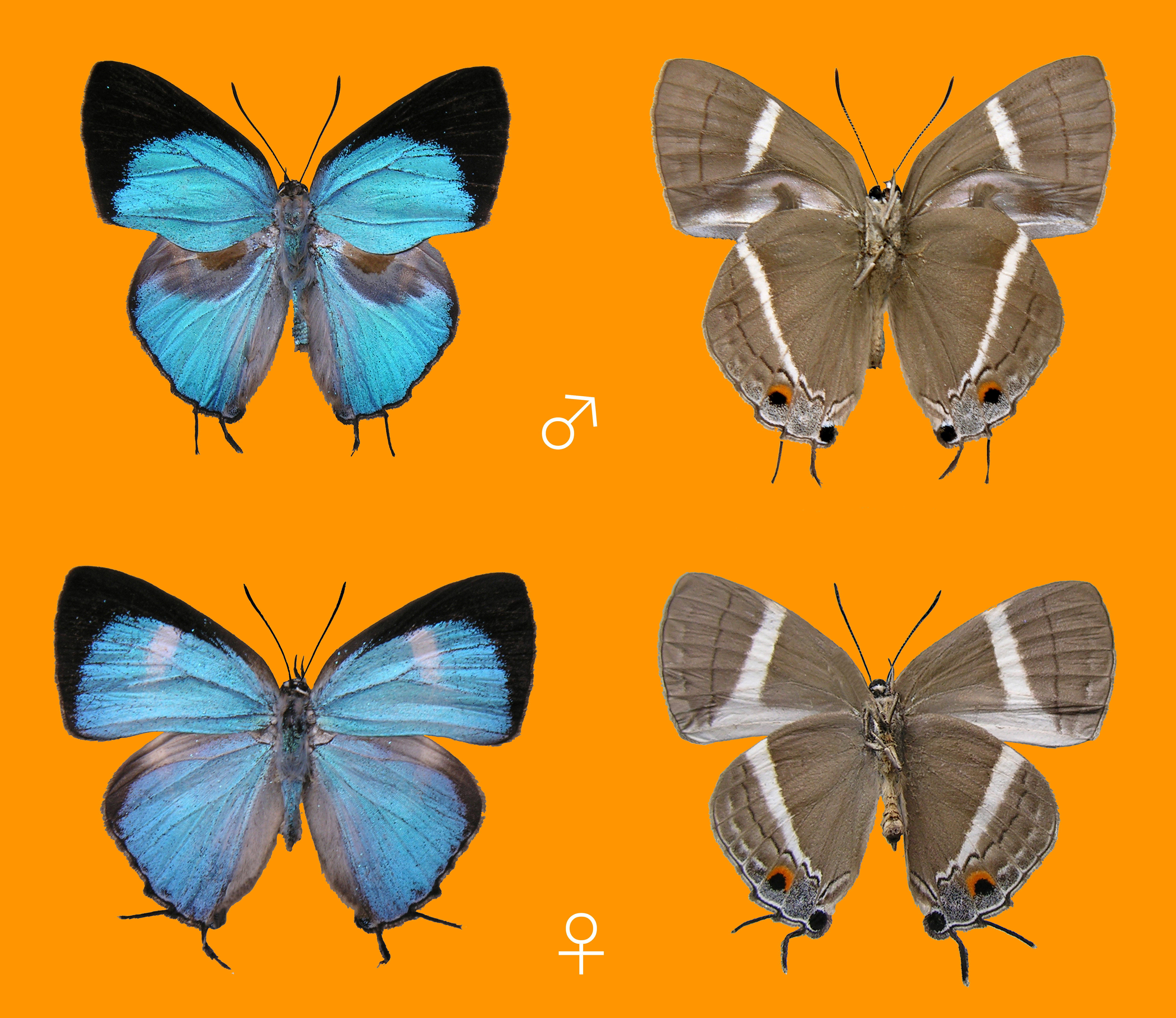 Dacalana liaoi, male & female